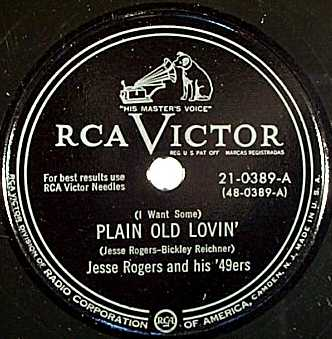 (I Want Some) Plain Old Lovin by Jesse Rogers & his 49'ers, RCA Victor [year unknown]. '